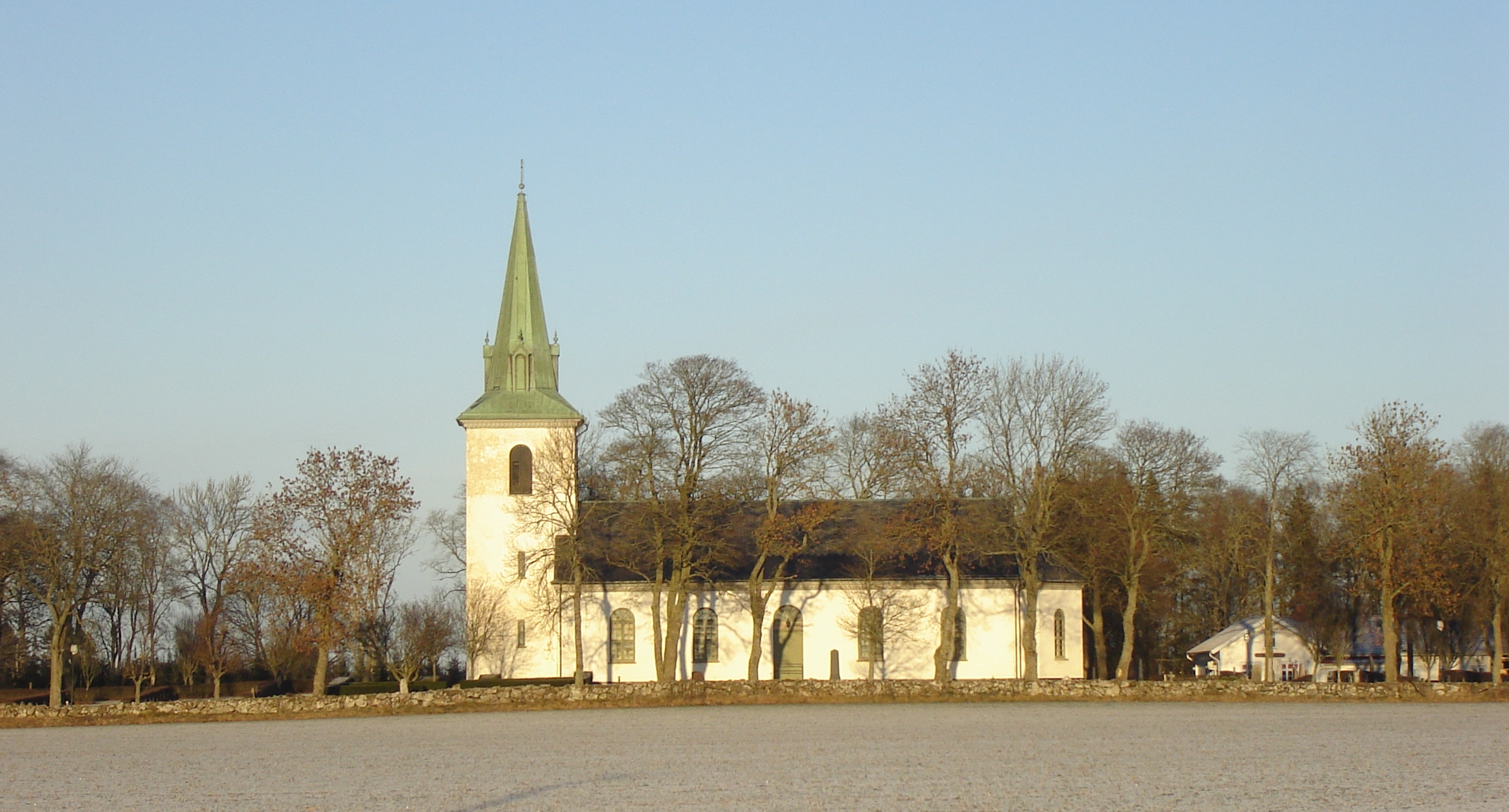 Church of Önum